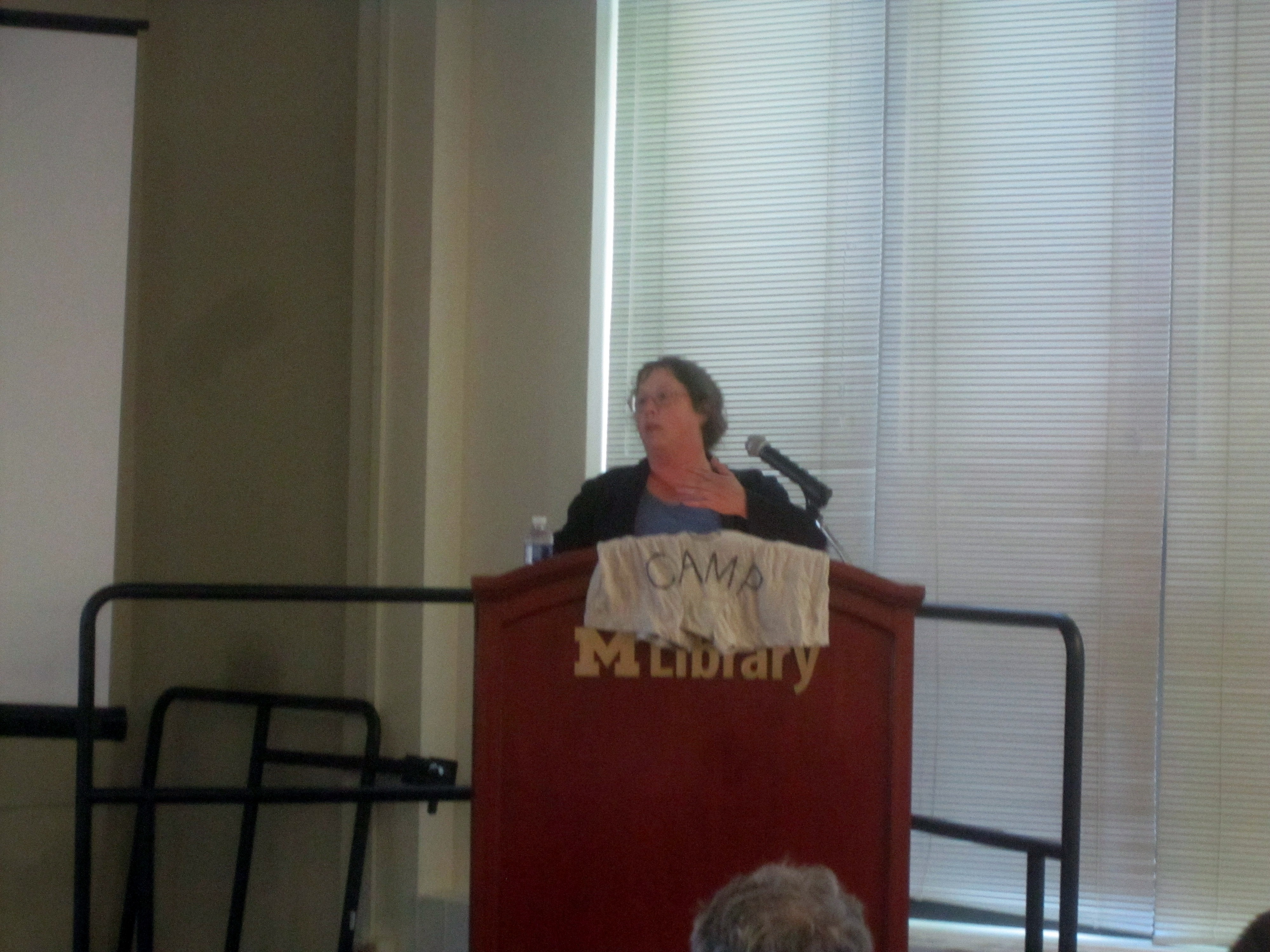 Jessica Litman at the Copyright Camp 2010 at the University of Michigan.